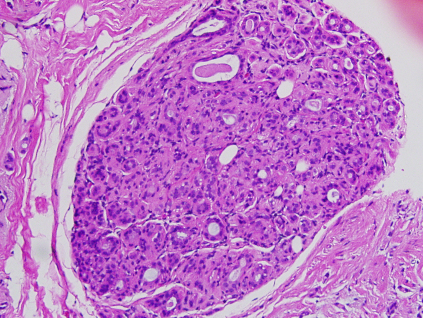 Ductal carcinoma in situ, cribriform type, of breast